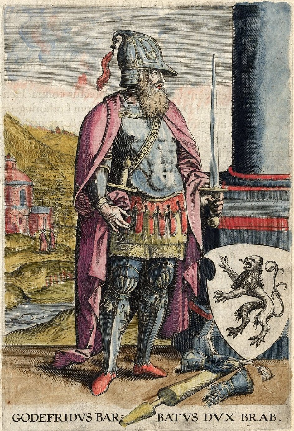 Godfrey I, Count of Leuven